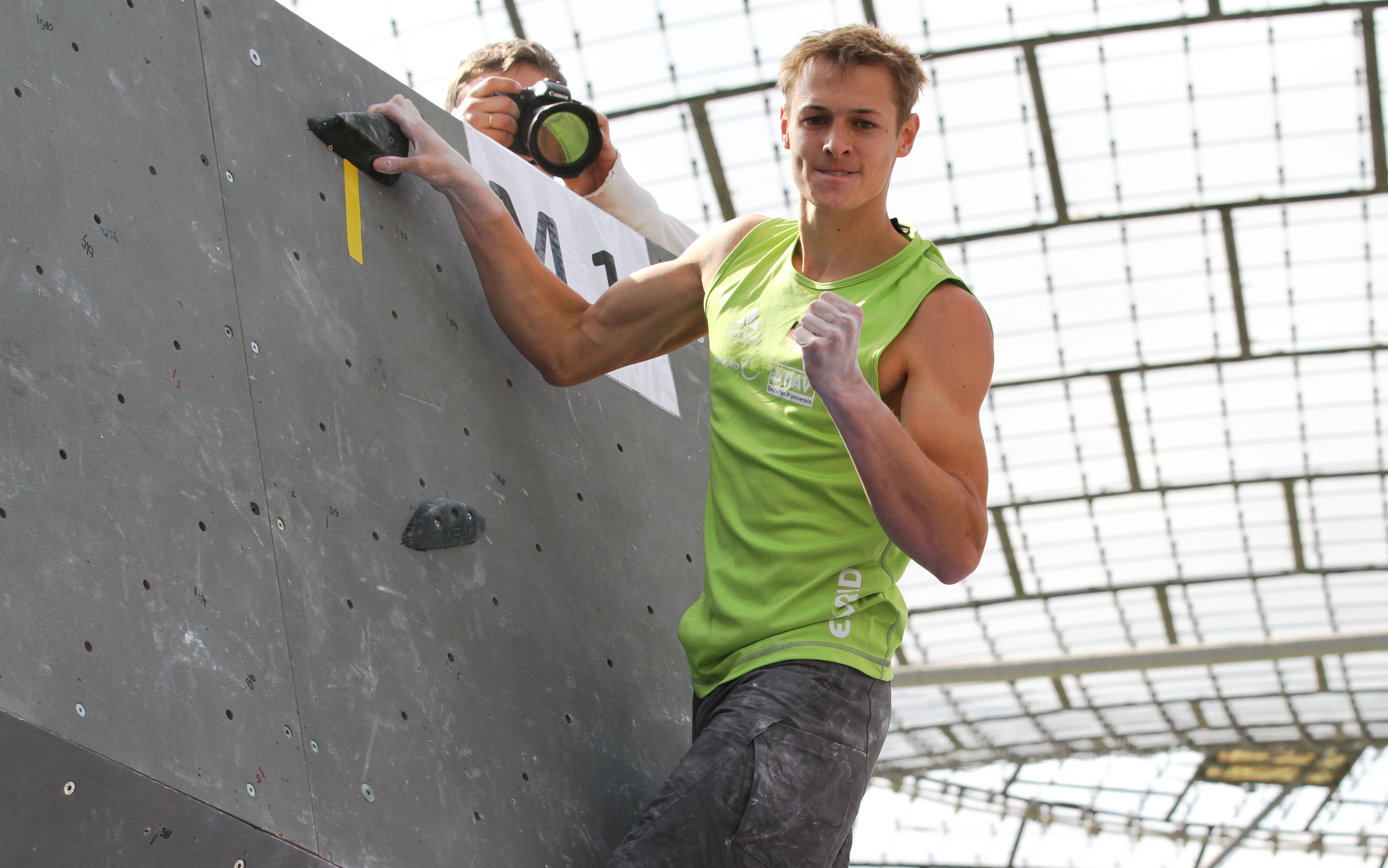 Jonas Baumann, GER at the Boulder Worldcup 2012